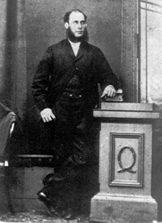 Henry Readford (1841-1901). Negative number: 84907 Original subtitle was: Henry Readford (1841-1901), stock thief, trail-blazer and folk hero. He was immortalised as Starlight in the first part of Boldrewood's classic novel Robbery Under Arms.